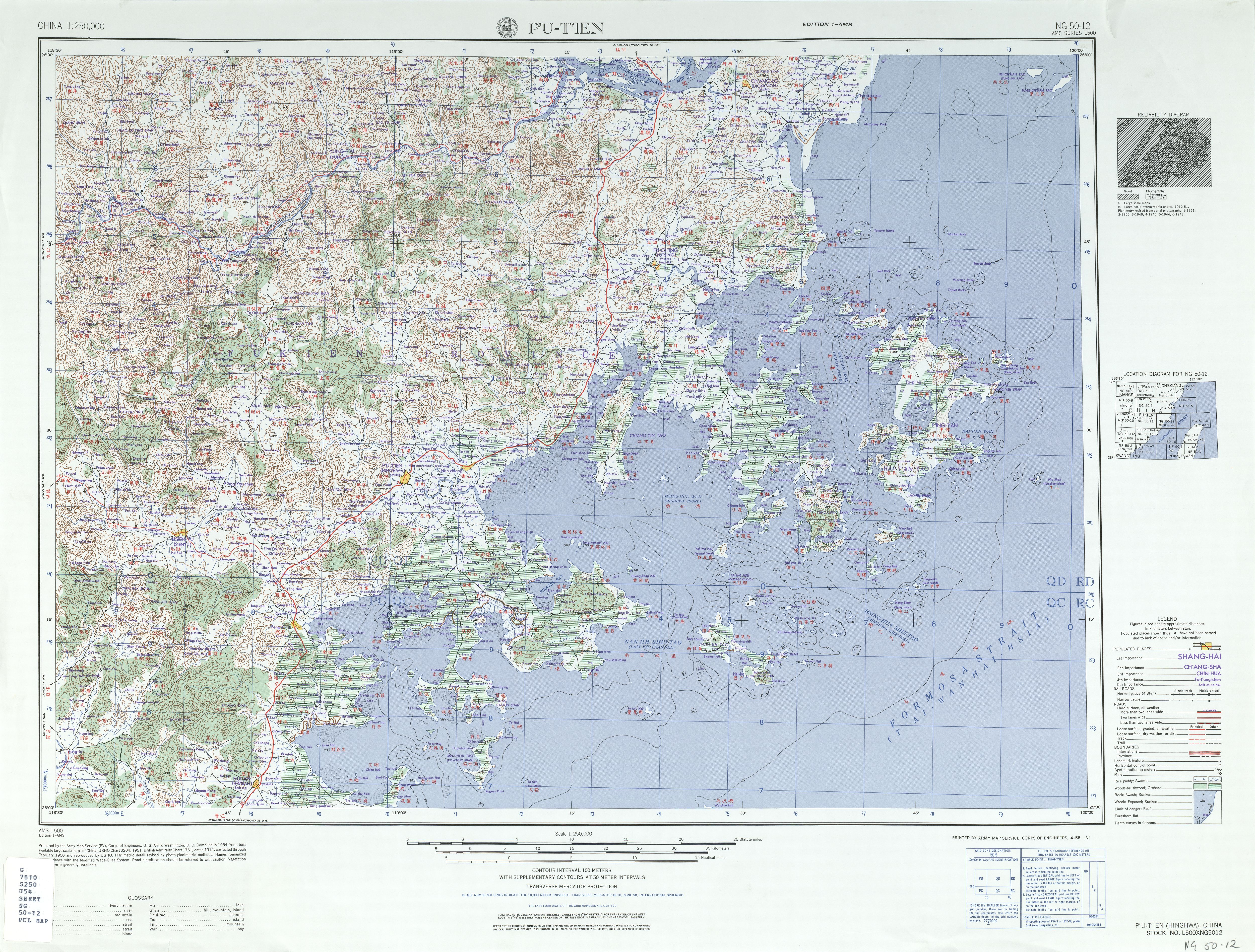 Map of Putian (P'u-t'ien), Fujian including Wuqiu Township (Wu-ch'iu, Ockseu), Kinmen County and Juguang Township (Tung-ch'üan Tao and Hsi-ch'üan Tao/Tung-sha Tao), Lienchiang County (the Matsu Islands), Taiwan (ROC)